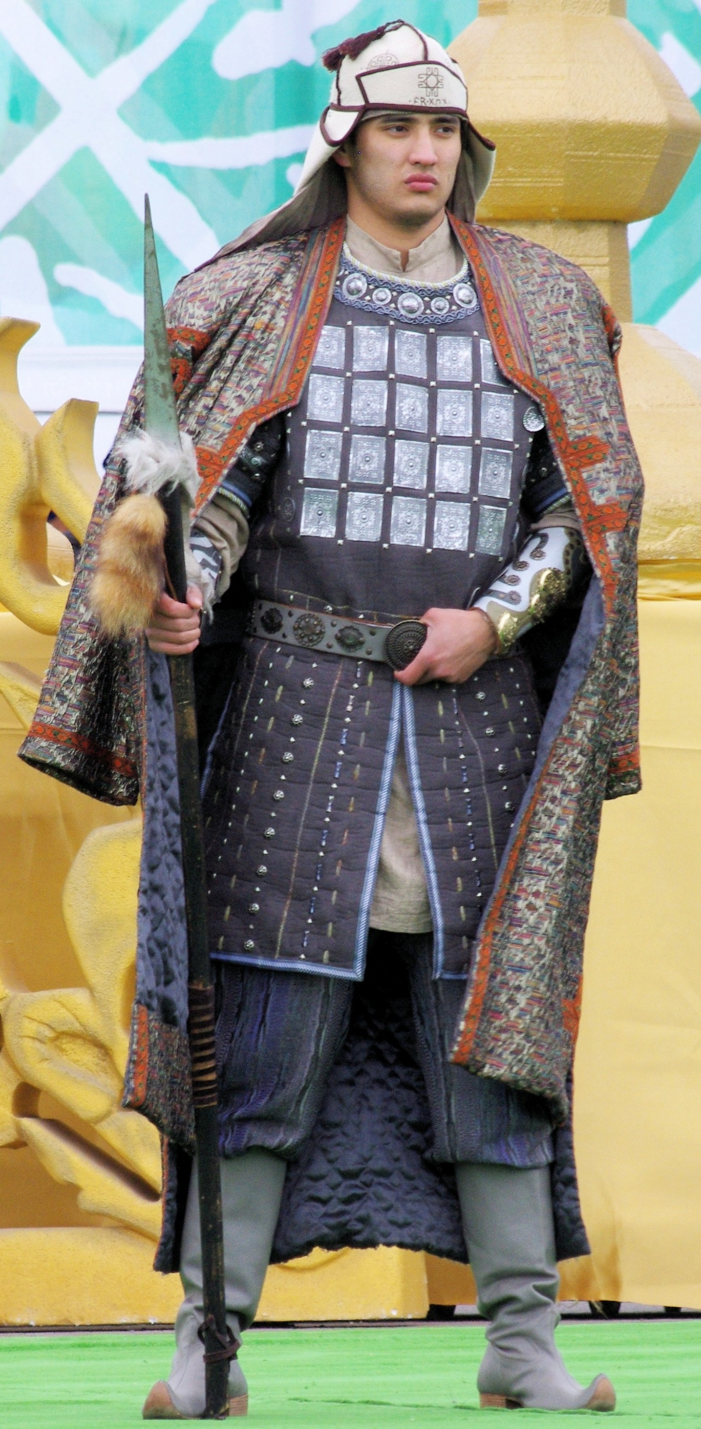 Kazakh guard at Nowruz celebrations in Nur-Sultan.